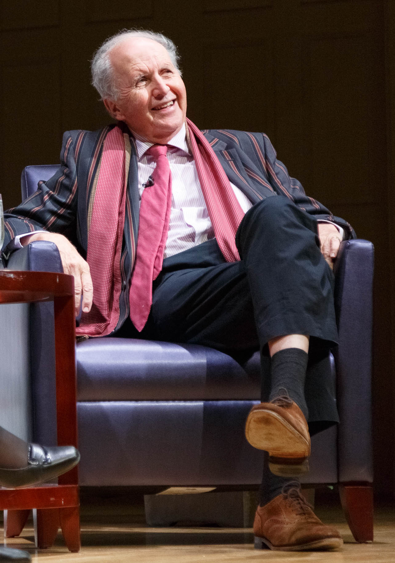 Alexander McCall Smith discusses his work with Colleen Shogan during the "National Book Festival Presents" series, October 24, 2019. Photo by Shawn Miller/Library of Congress. Note: Privacy and publicity rights for individuals depicted may apply.